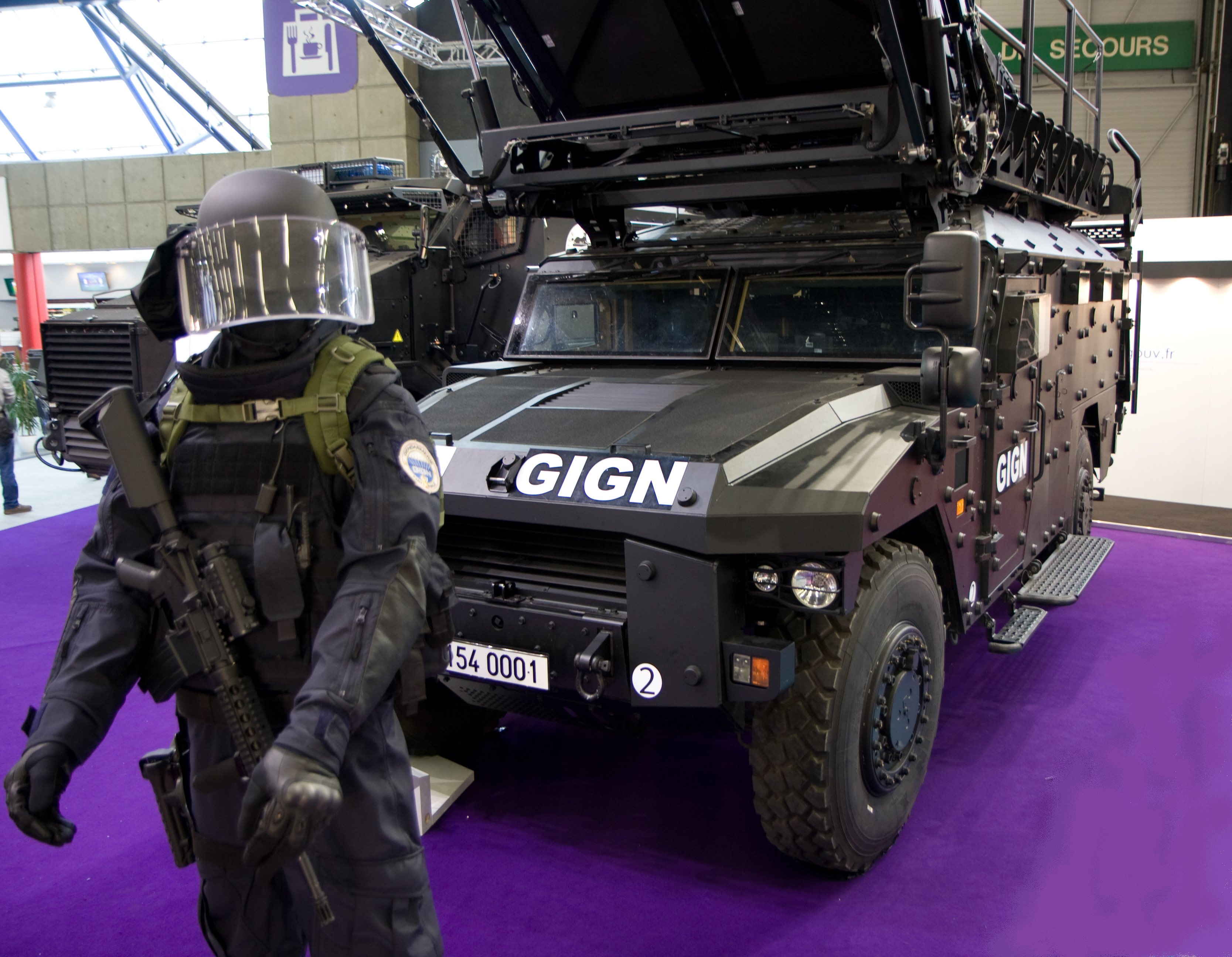 French Gendarmerie GIGN Sherpa assault truck